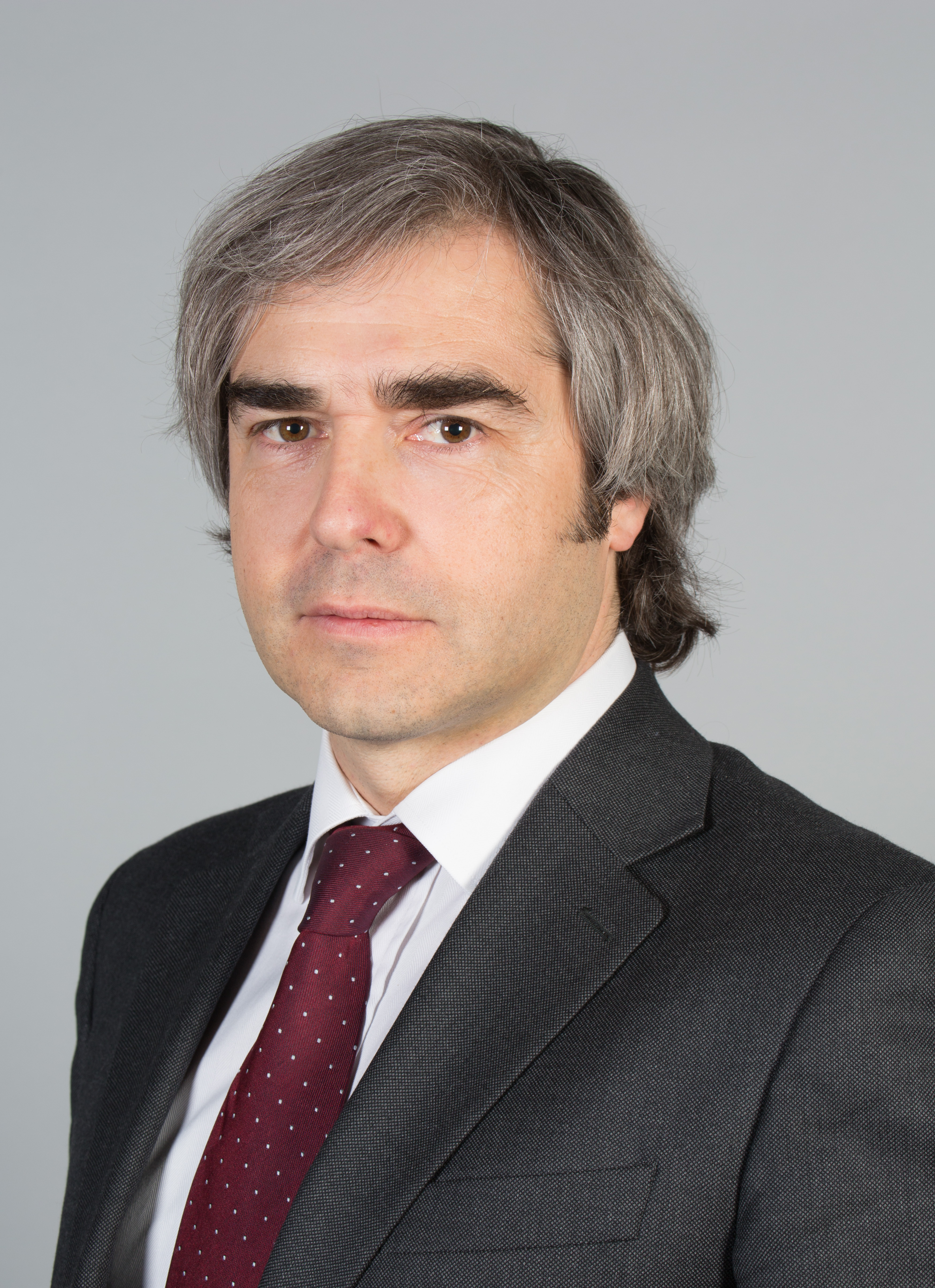 Nuno Melo, Member of the European Parliament for Portugal in Strasbourg, France.